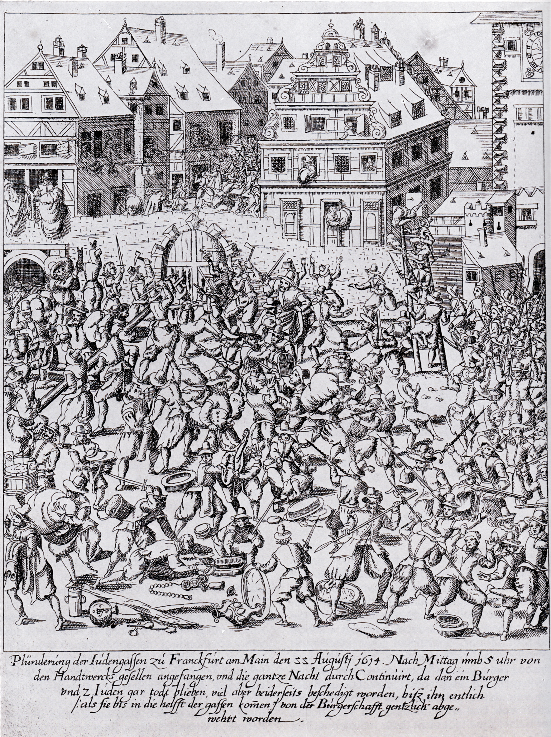 Fettmilch Riot: The plundering of the Judengasse (Jewry) in Frankfurt, Holy Roman Empire on August 22, 1614